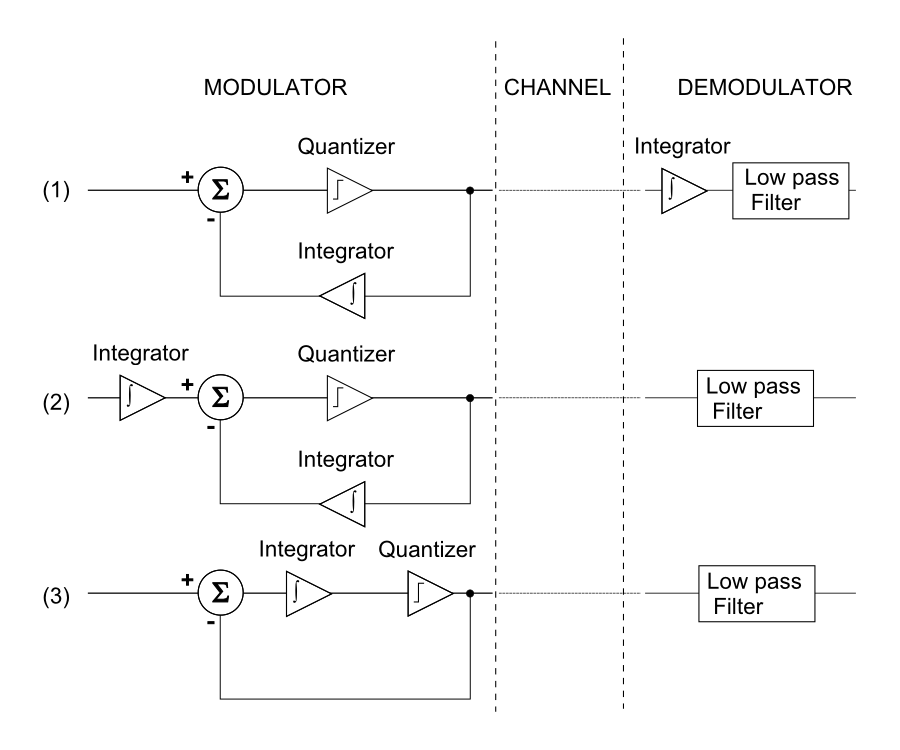 This image show in a simplified way derivation of ΔΣ-modulation from Δ-modulation A block diagram of Δ-modulator/demodulator is shown Due to the linearity property of integral operator, the integrator in the forward path is moved at the very beginning of the whole conversion chain Due to the linearity property of integral operator (the sum of integral is equal to the integral of the sum), a ΔΣ-modulator/demodulator is obtained